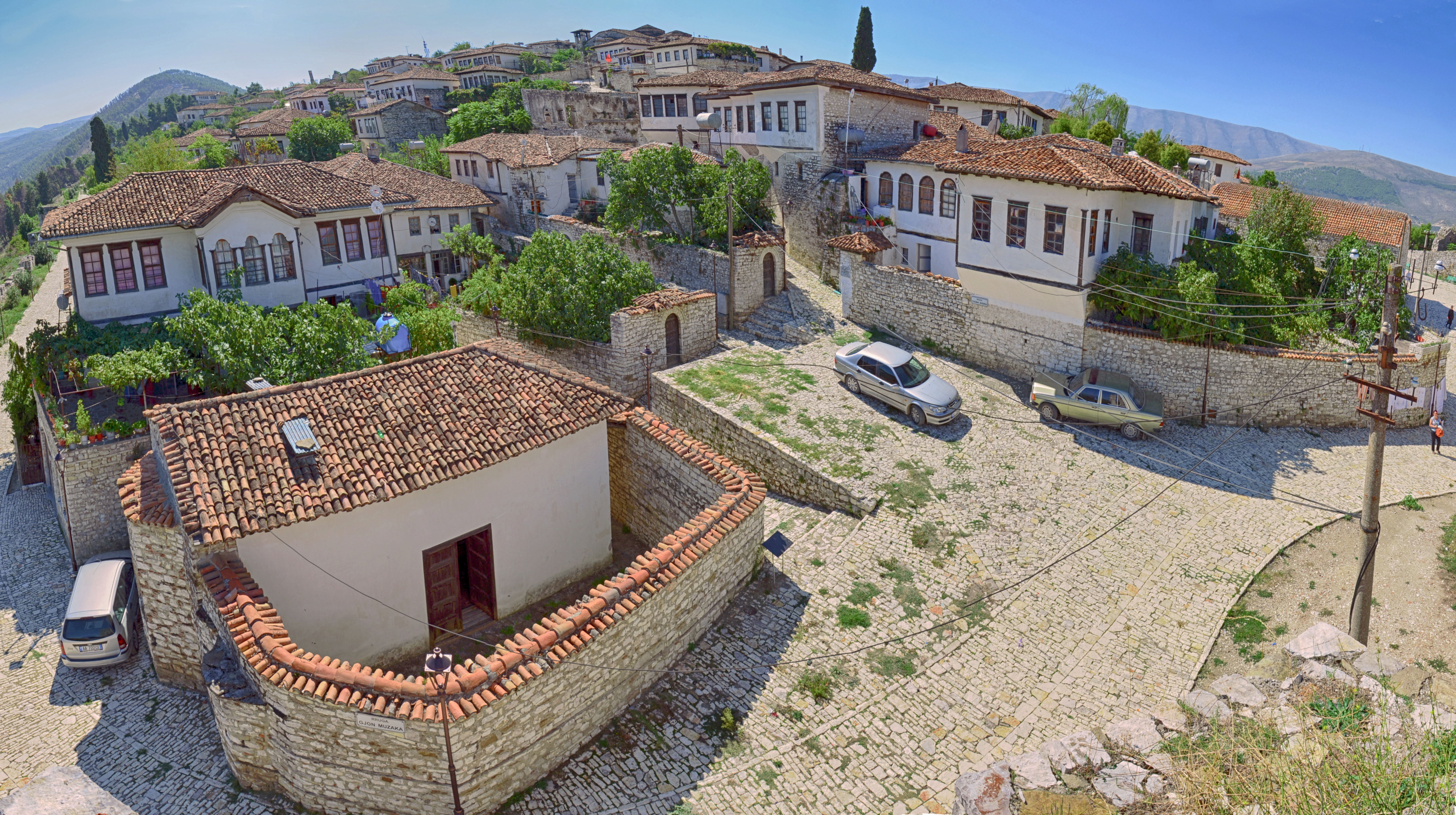 The houses of the Berat Castle, view from the top of the entrance gate